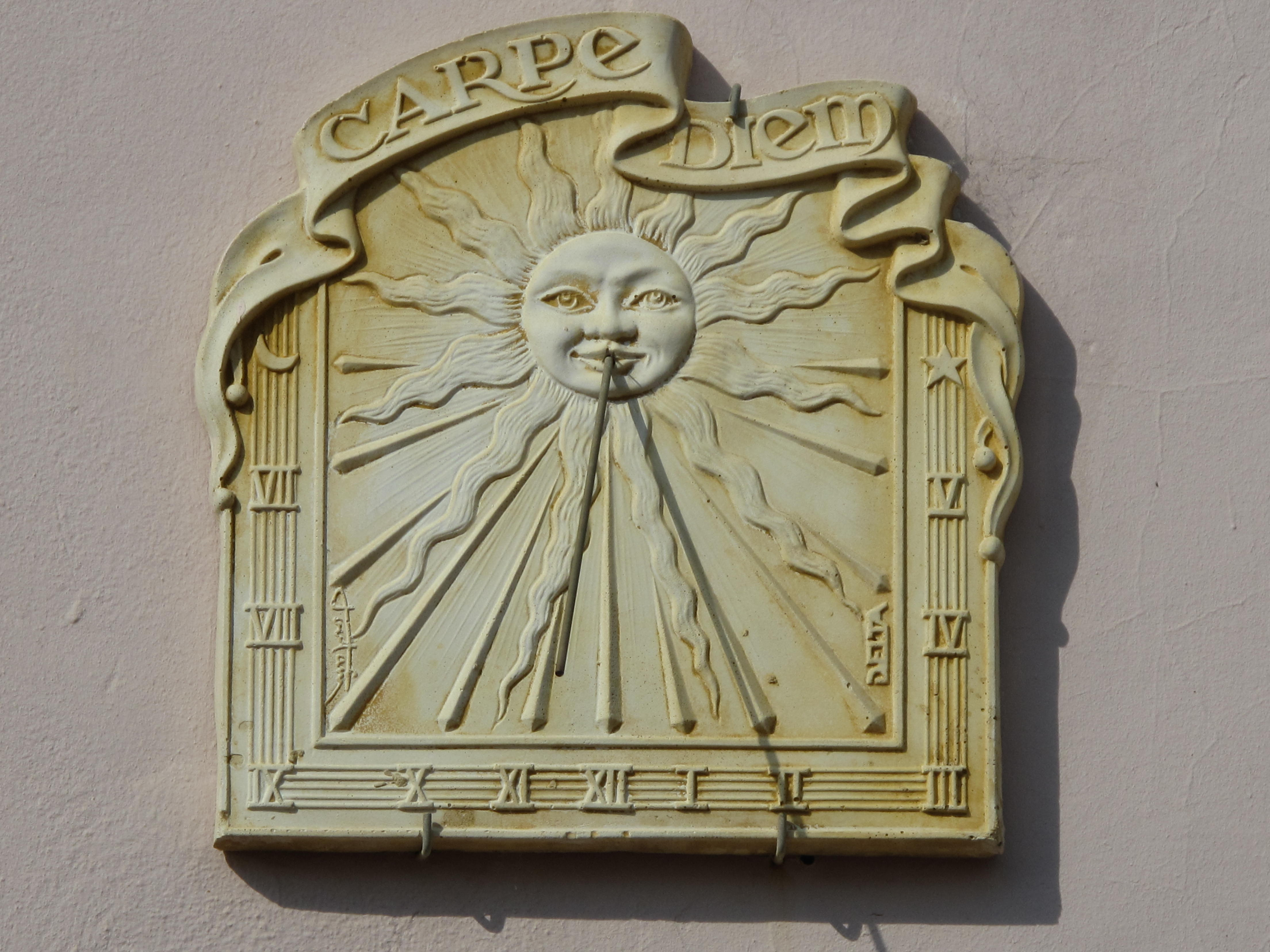 Sundial with the motto "Carpe Diem", 6 rue d'Astanières, Capbreton, Landes, France